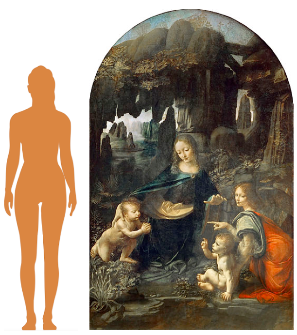 Indicative size comparison between an average-sized woman (165 cm) and the painting (Louvre version, 199 × 122 cm)